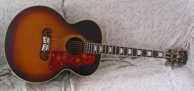 Gibson J-200 guitar which was made in Kalamazoo, Michigan in 1960.